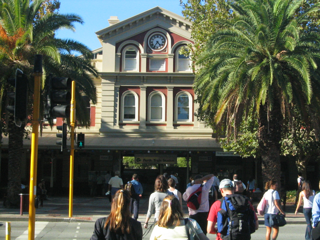 Transperth Perth Train Station